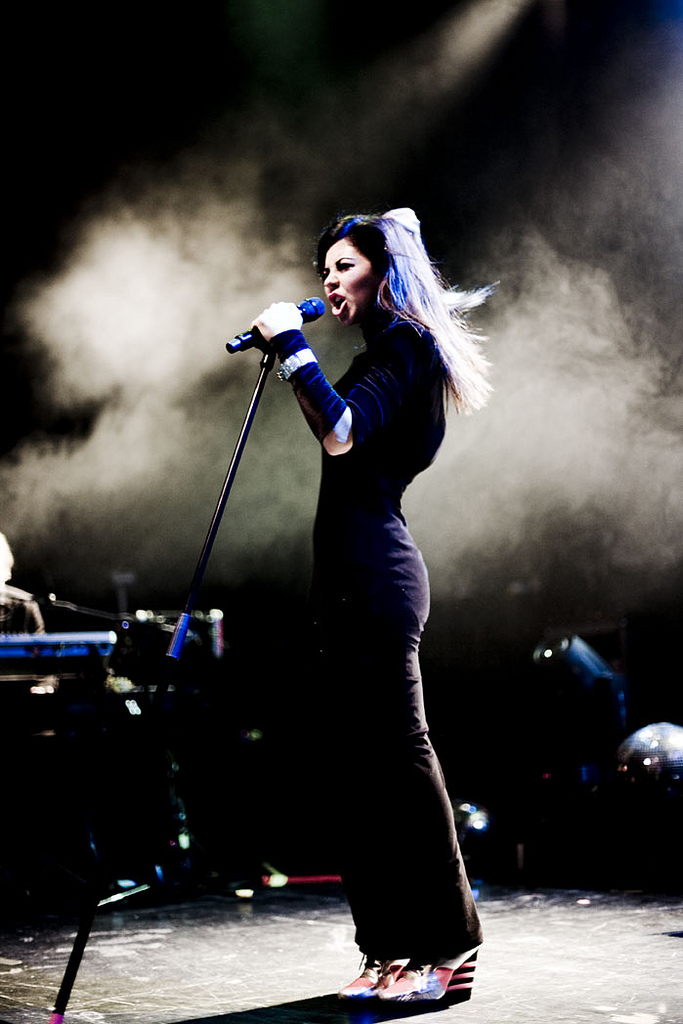 Marina & the Diamonds at the HMV Picture House (November 2, 2010)